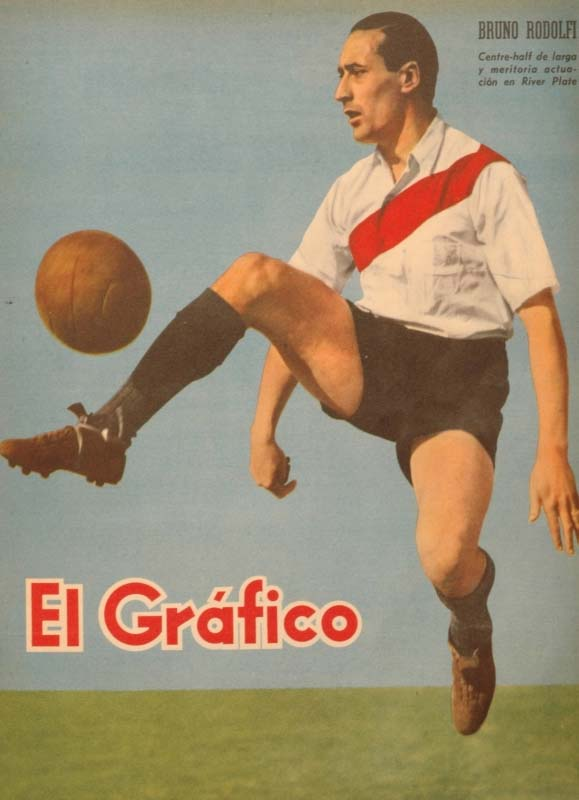 Centre back Bruno Rodolfi while playing for River Plate.